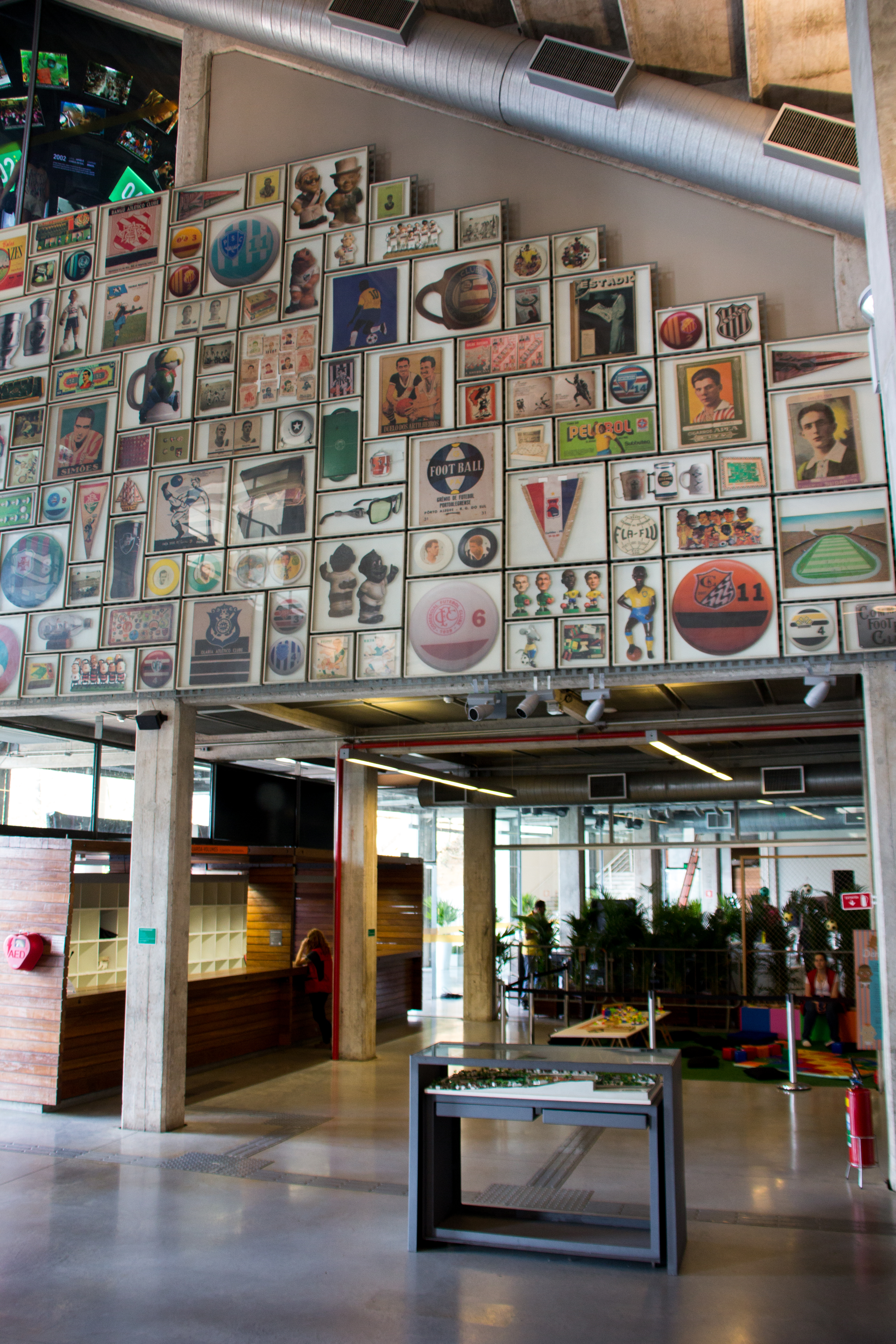 Museu do Futebol, São Paulo, Brazil